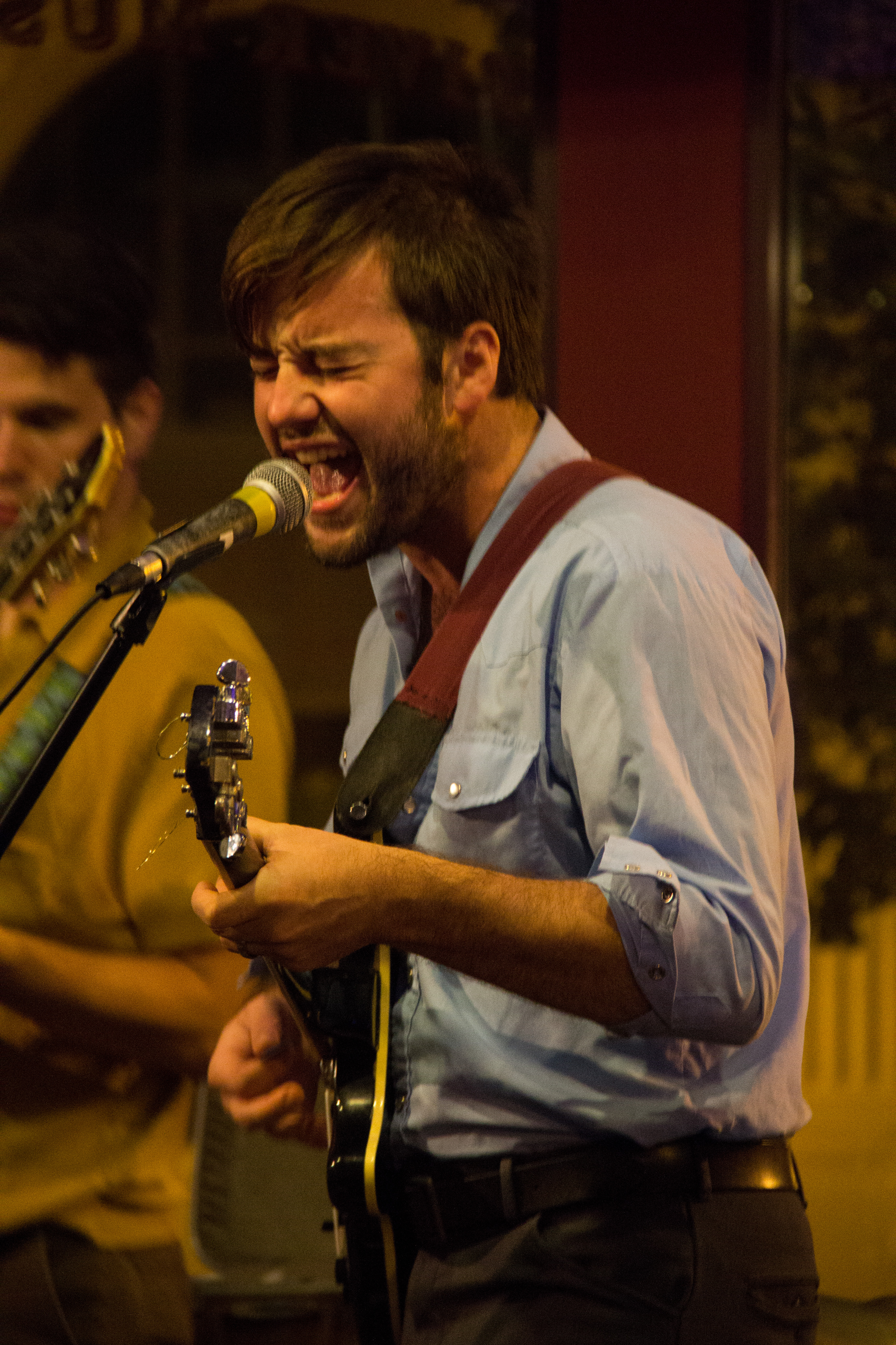 Holy Ghost Tent Revival at RME community Stage, Davenport, IA 7/20/13